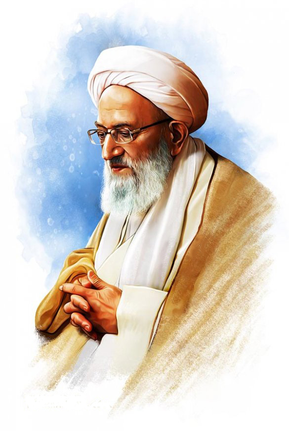 Mohammad Reza Mahdavi Kani was an Iranian cleric, writer and conservative politician who was Acting Prime Minister of Iran from 2 September until 29 October 1981. Before that, he was Minister of Interior and Minister of Justice in the cabinets of Mohammad-Ali Rajai and Mohammad-Javad Bahonar. He was the leader of Combatant Clergy Association and Chairman of the Assembly of Experts and also founder and president of Imam Sadiq University.